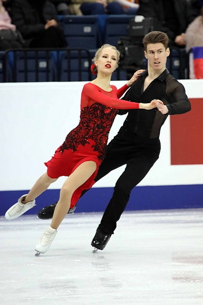 Juulia Turkkila and Matthias Versluis at the 2019 European Championships - RD